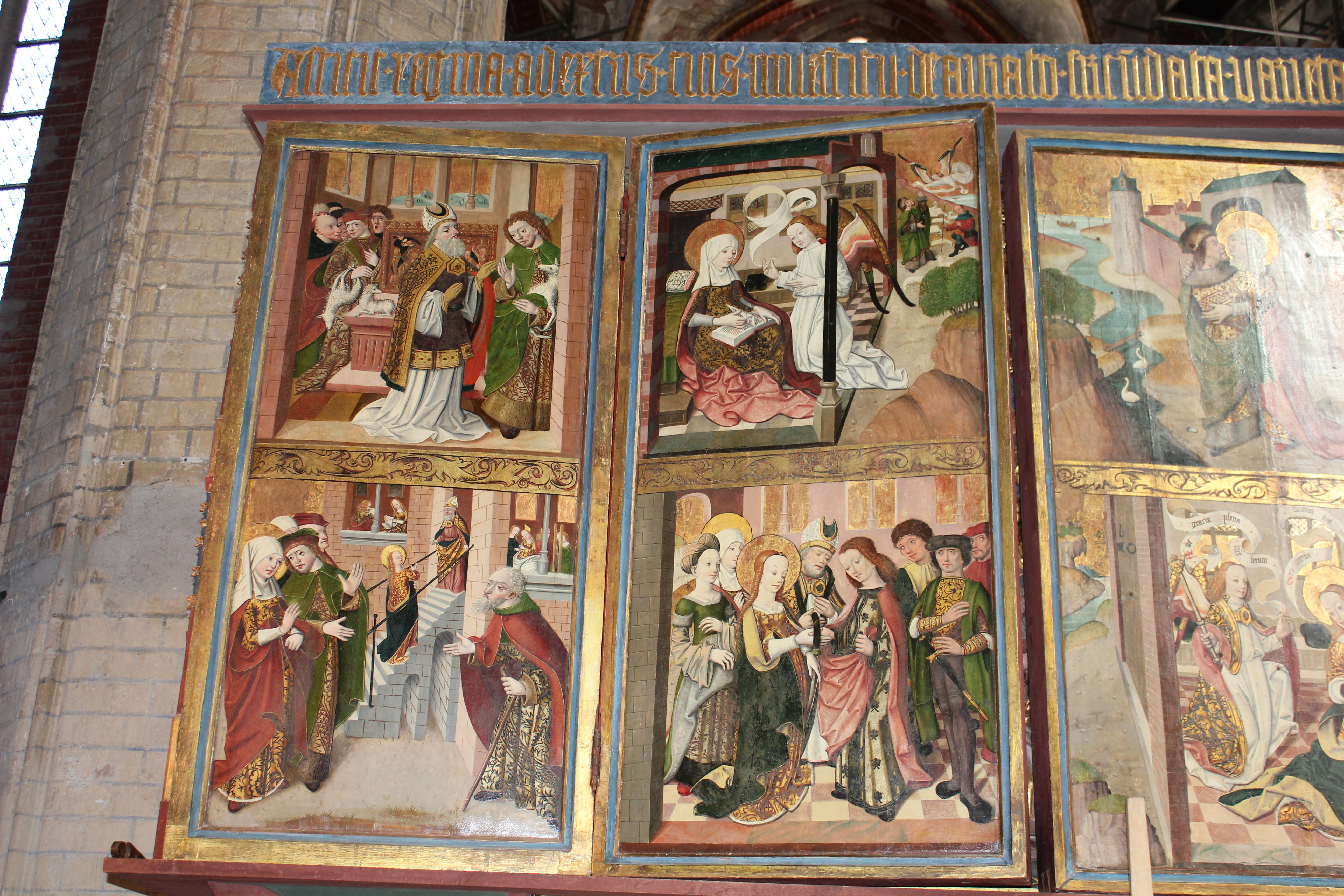 The altar of the Stiftskirche Bützow